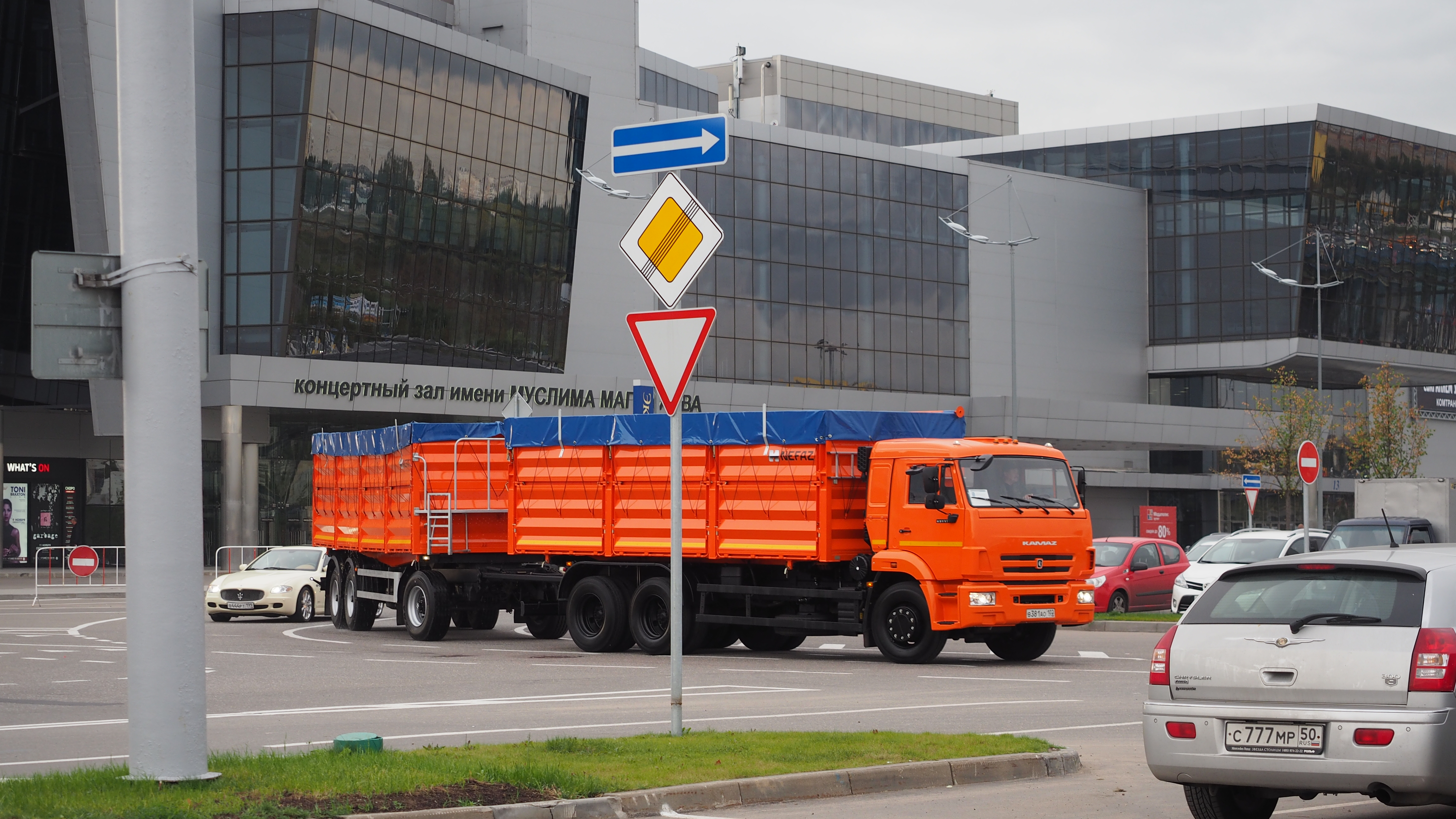 NefAZ 4514 agricultural dump based on KAMAZ chassis. Comtrans 2015 at Moscow.